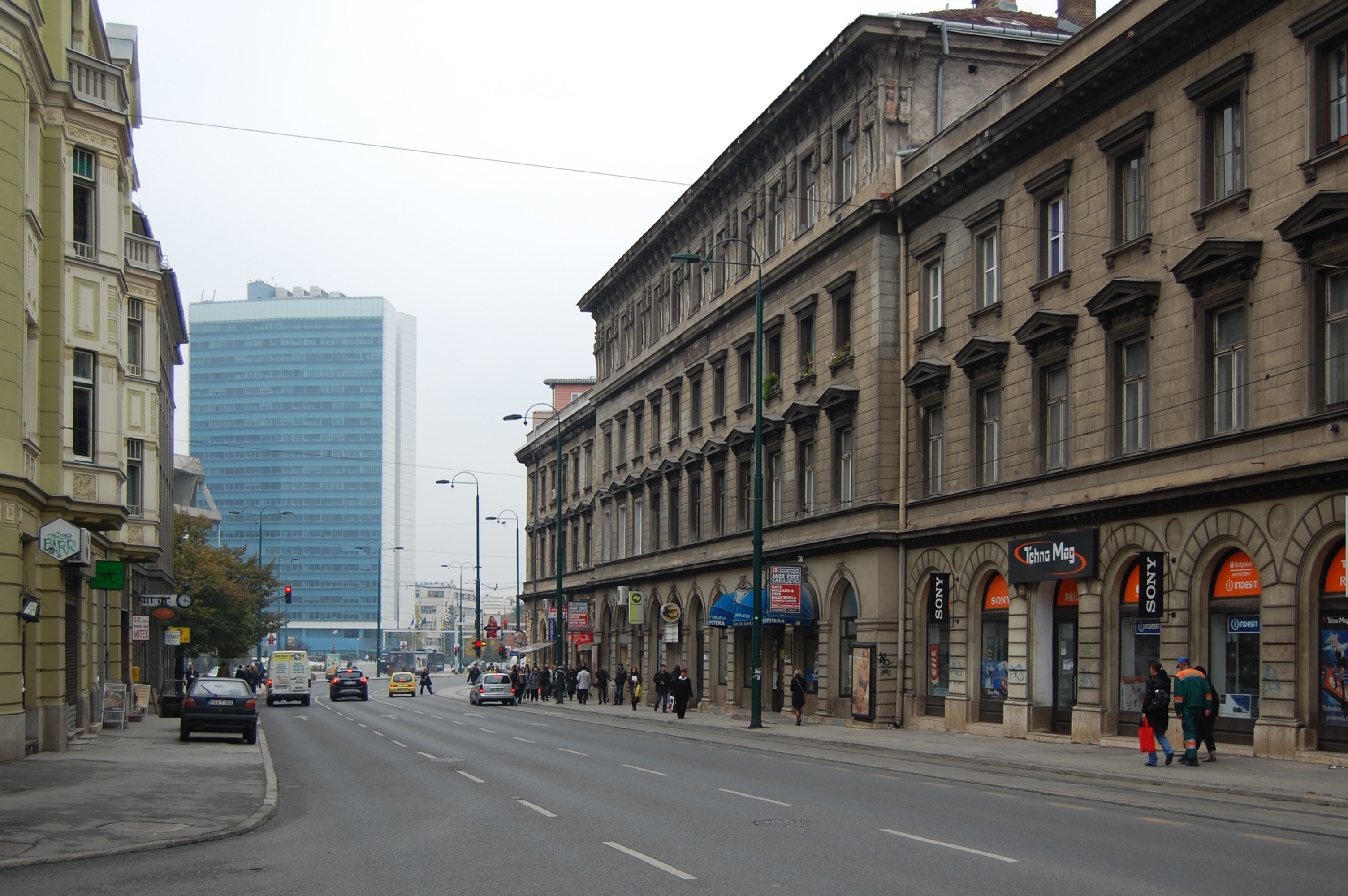 Tram line near Marijin Dvor